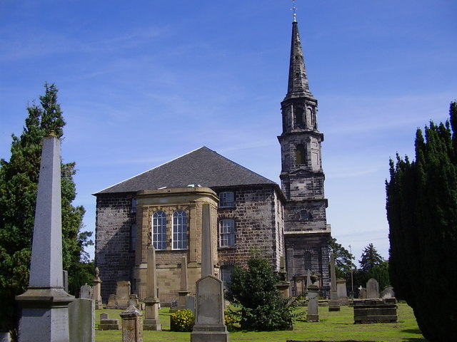 St. Michael's Kirk, Inveresk, Musselburgh, Scotland St Michael's sits adjacent to the site of a Romam Fort and has a mound in the churchyard known as Cromwell's mound, where the English cannons were aimed on the town.